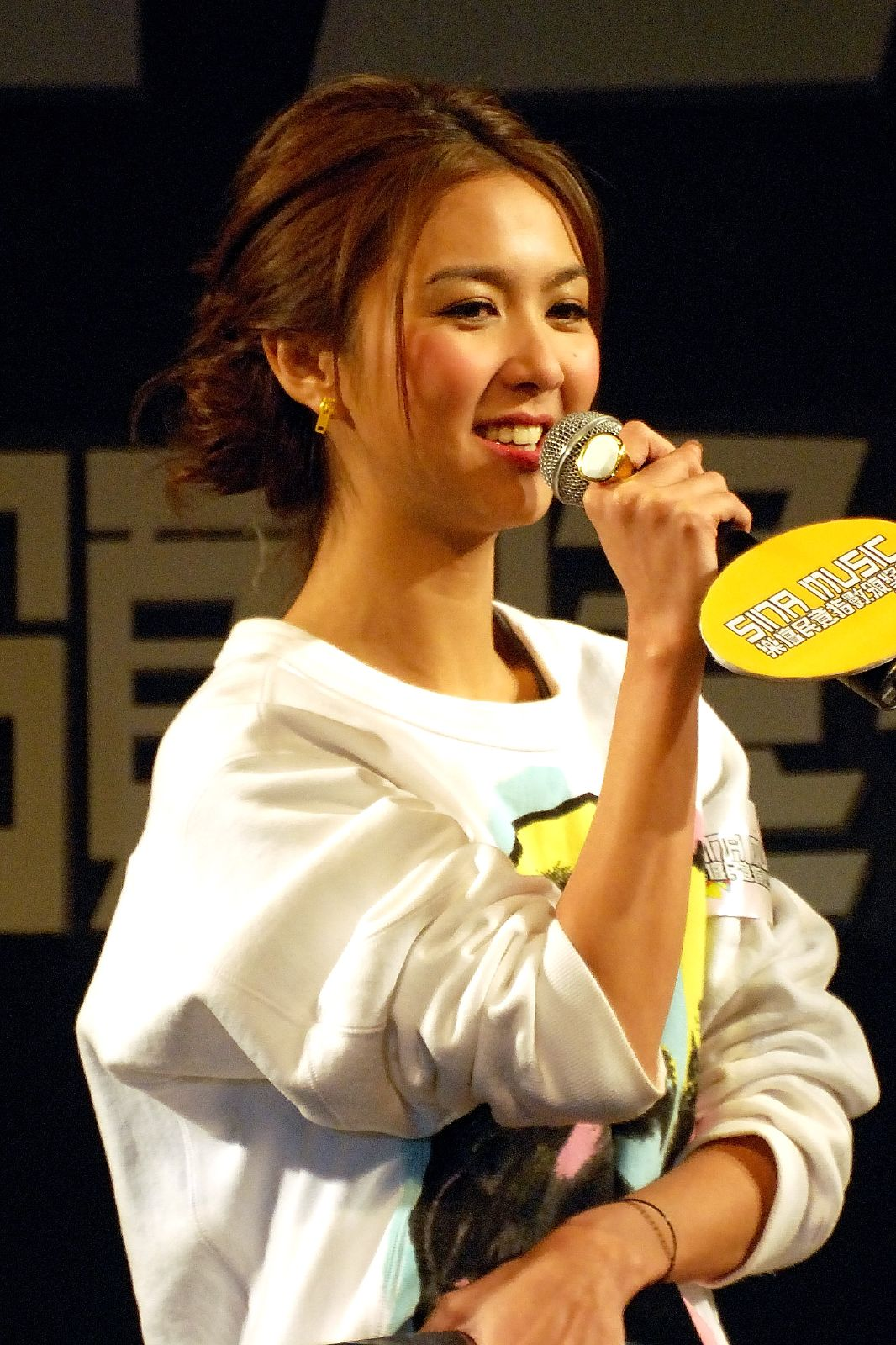 Fiona Sit at SINA Music樂壇民意指數頒獎禮 2006 (hosted on 29 January 2007)